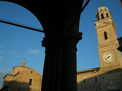 Square in the Italian city of Macerata picture taken by user Idéfix in july 2005